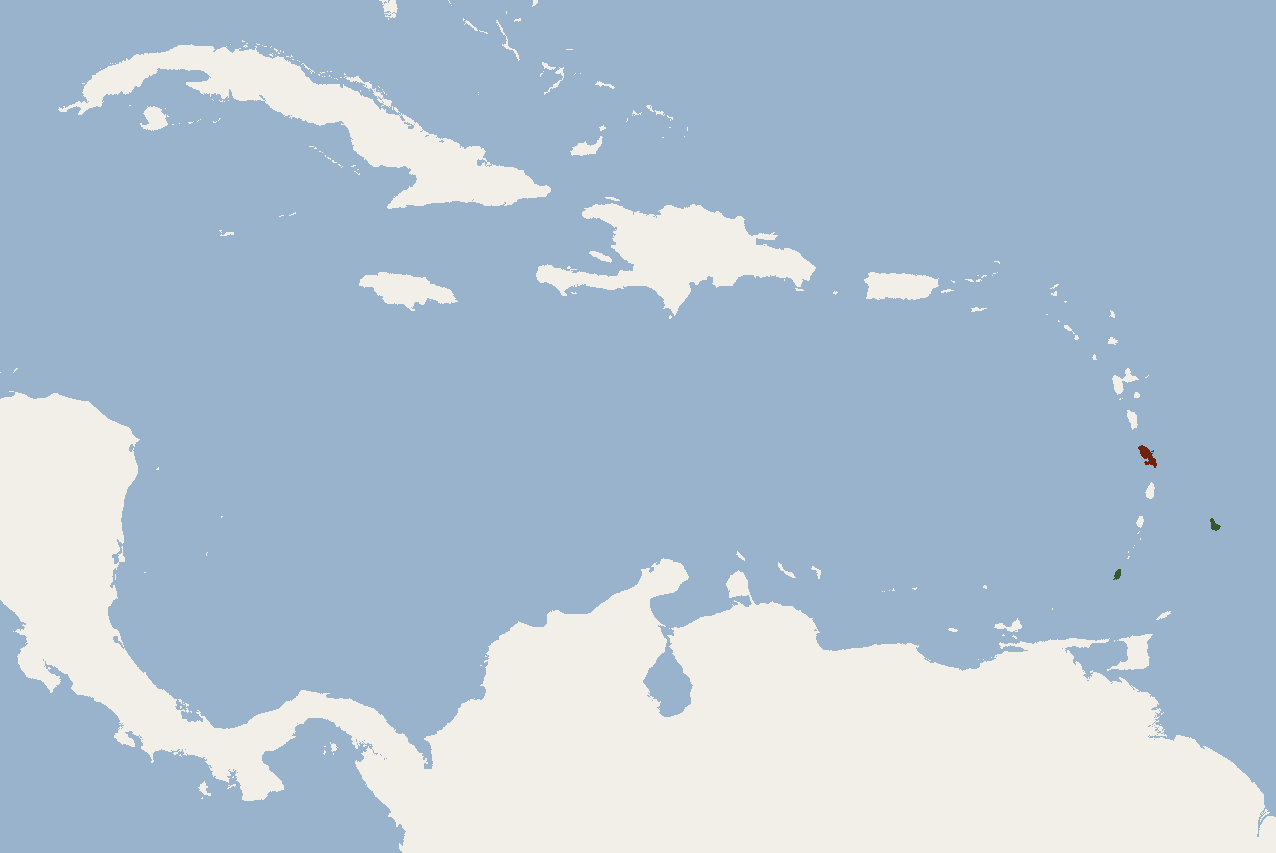 Geographical distribution of Myotis according to Museum specimens